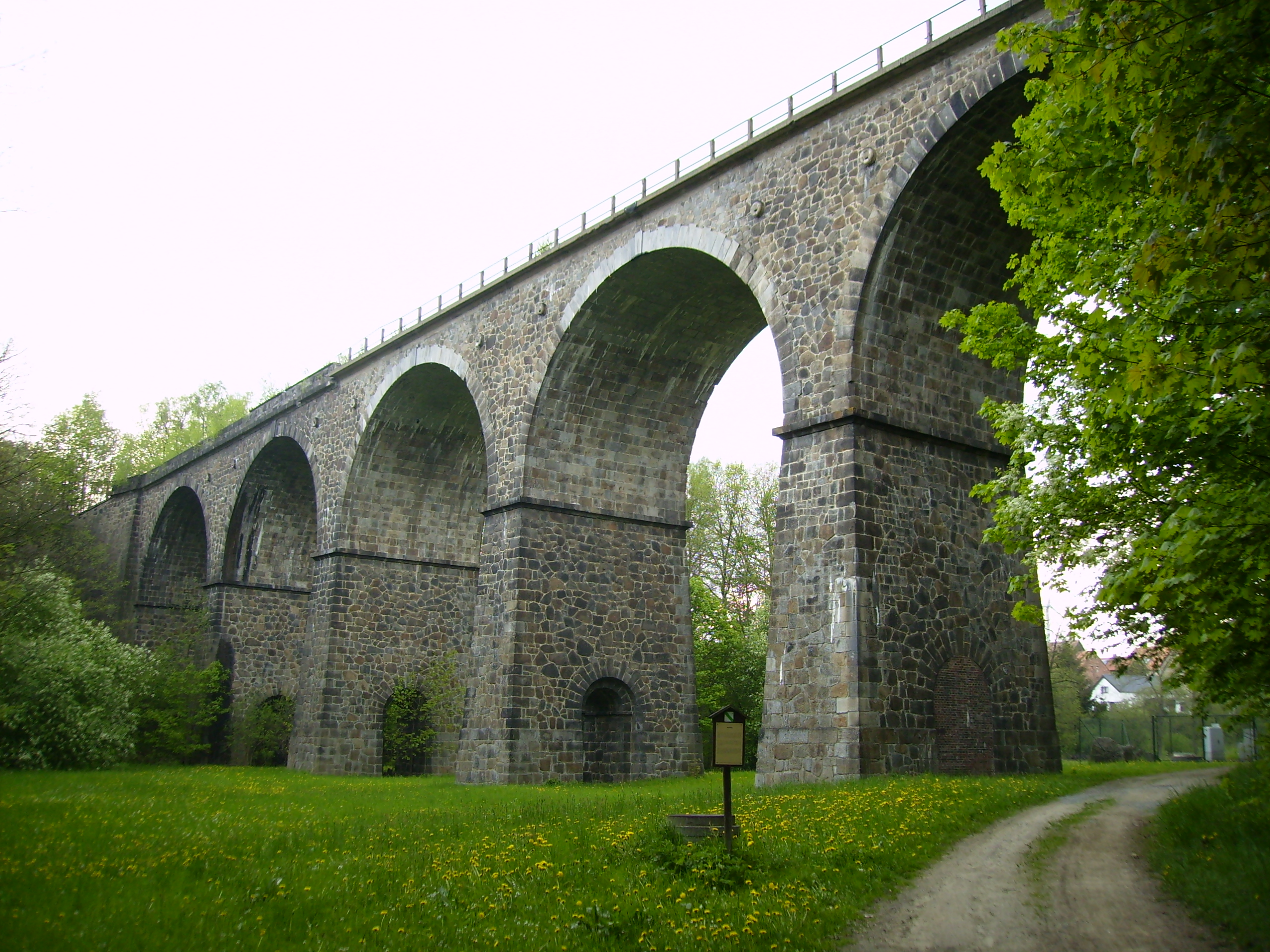 Viaduct on the western edge of Herrnhut, Saxony, Germany. Image taken by Mark Verma, May 9th 2010.